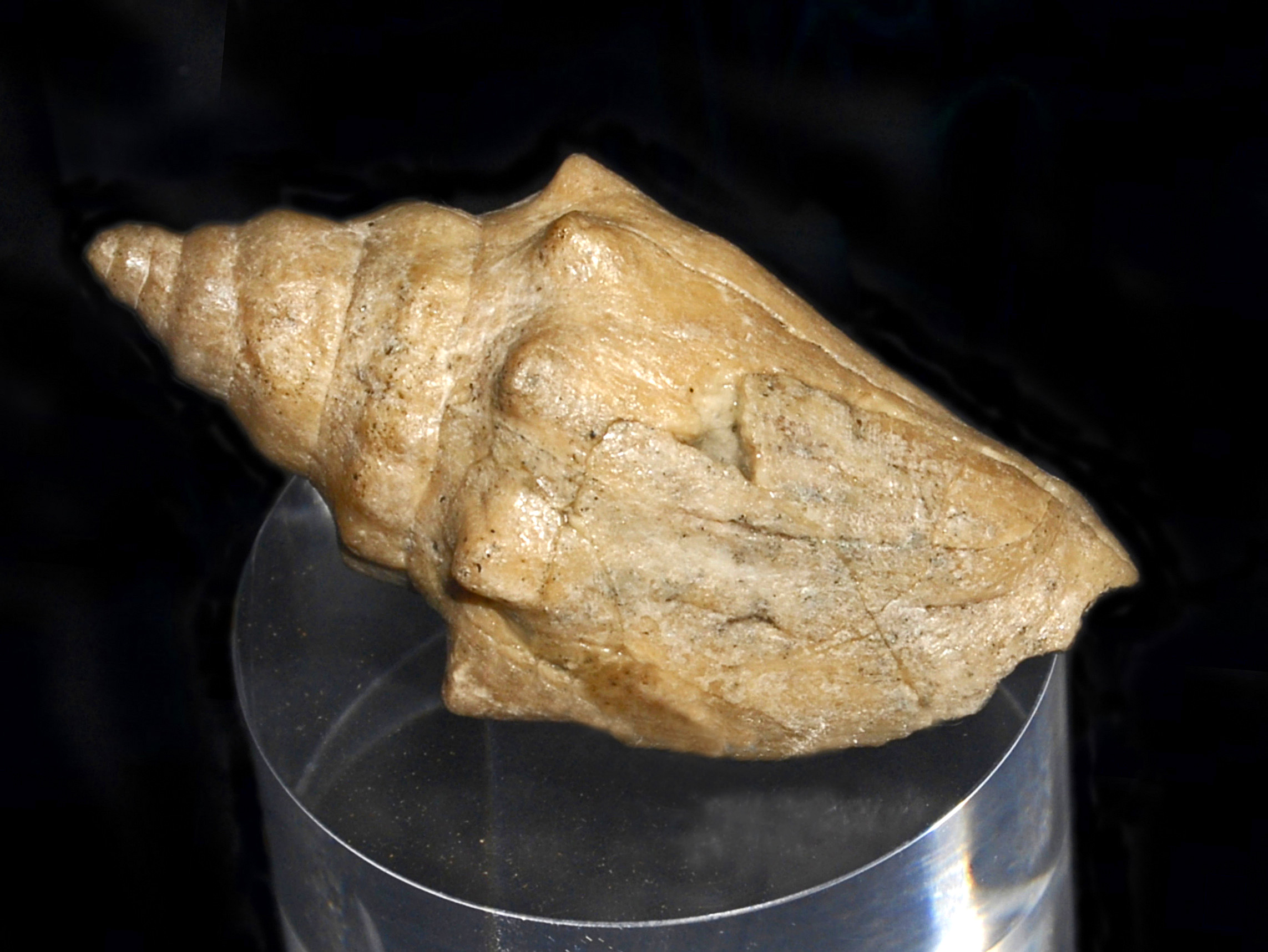 A view of the fossil shell of Persististrombus nodosus on display at the Museo Civico Craveri di Scienze Naturali - Bra